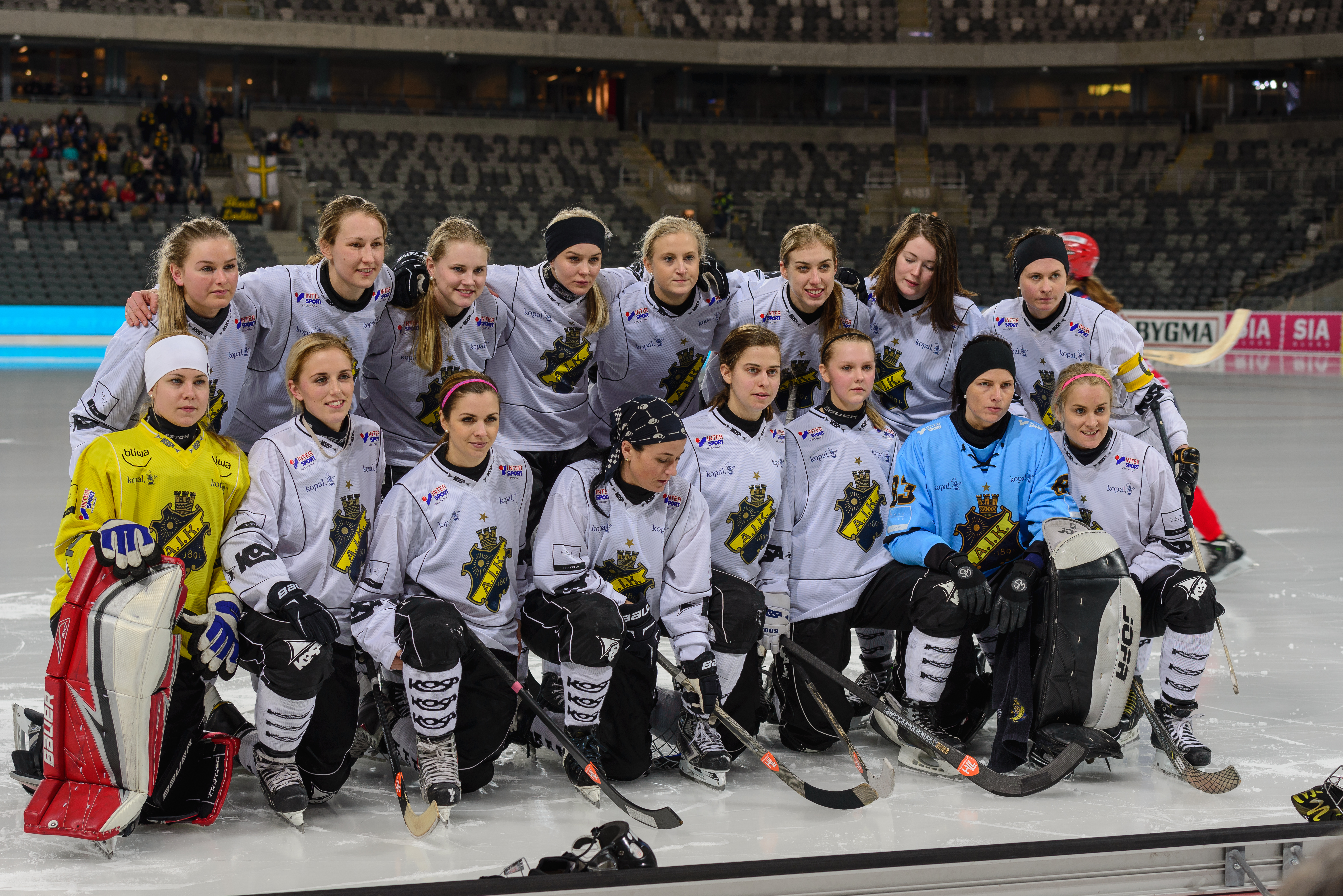 AIK before the Swedish championship in bandy, final (women). Kareby 3 vs AIK 1.